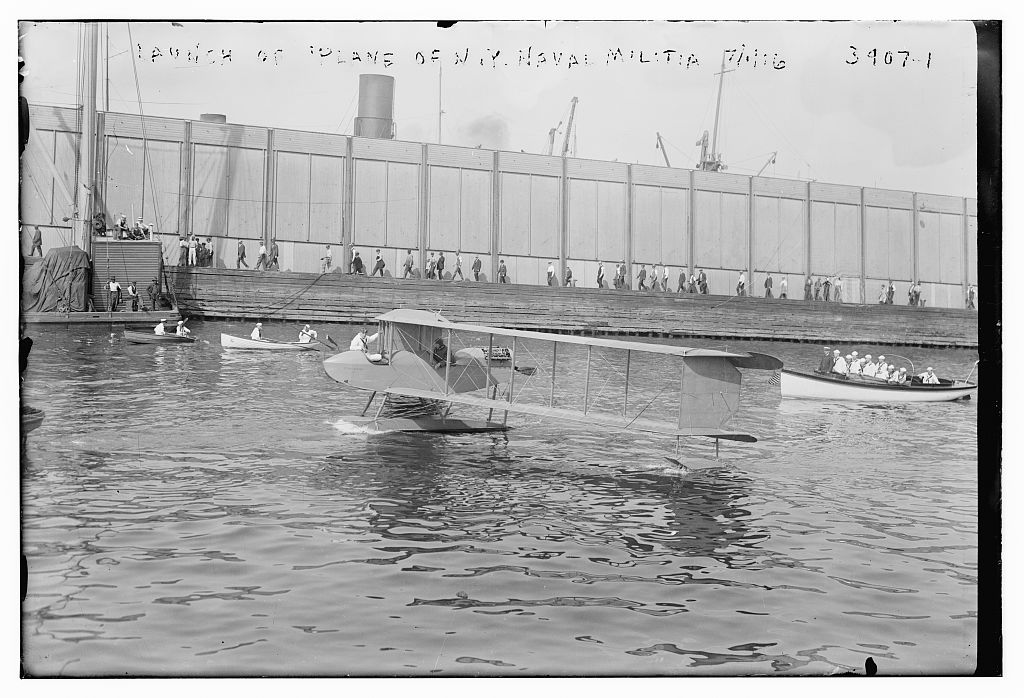 Launch of plane on N.Y. Naval militia, 1916